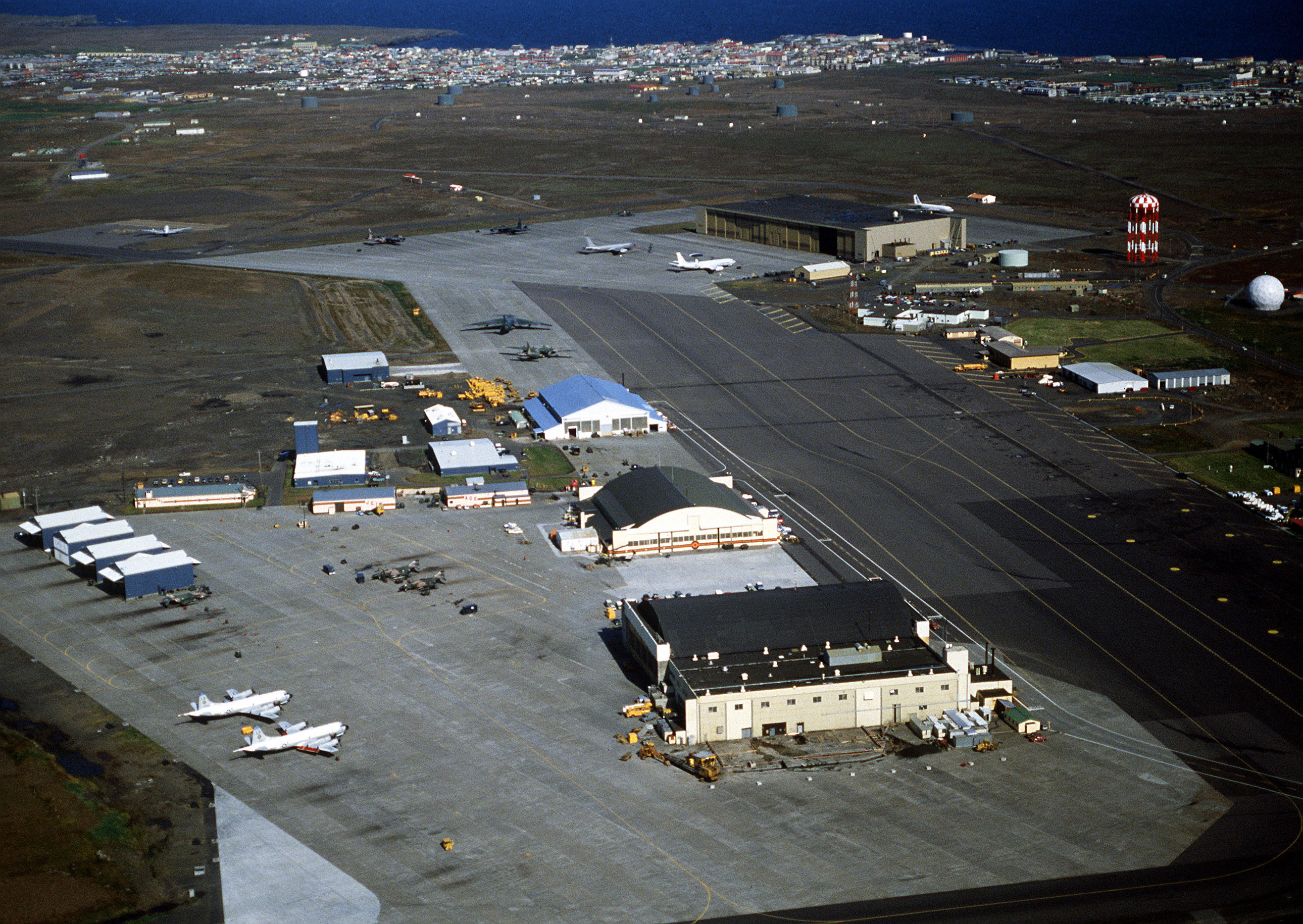 A view of the U.S. Naval Air Station Keflavik, 19 August 1982. In the foreground are the ramp areas and facilities of the U.S. Air Force 57th Fighter Interceptor Squadron, with other facilities in the background. The two aircraft in the foreground are Lockheed P-3Cs of U.S. Navy patrol squadron VP-26 Tridents. Also visible are three USAF McDonnell Douglas F-4C/D Phantom II fighters (on temporary duty). In the background are three Lockheed HC-130 Hercules´, a Lockheed C-141B Starlifter, a Boeing KC-135A Stratotanker and a Boeing E-3A Sentry.